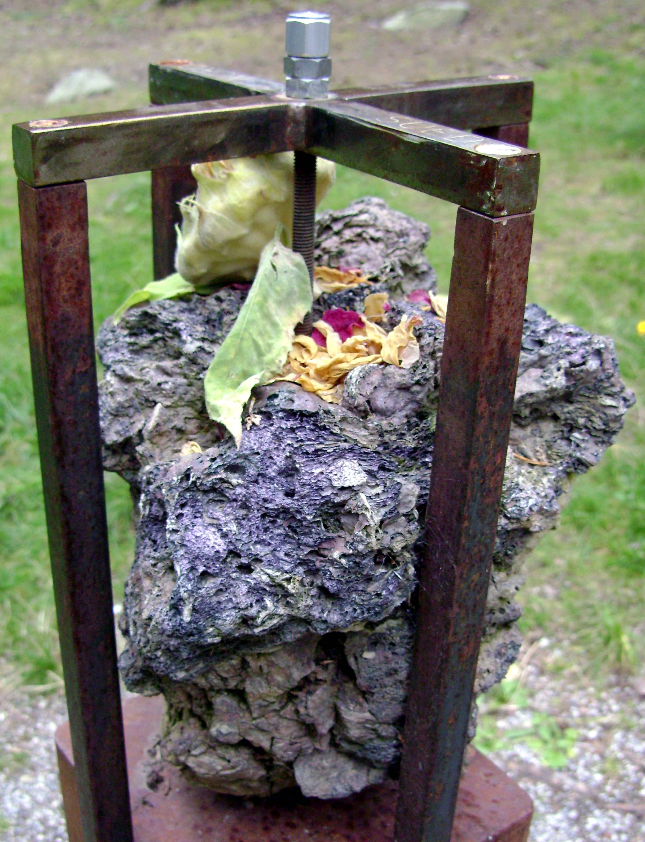 Stone from Goldbichl